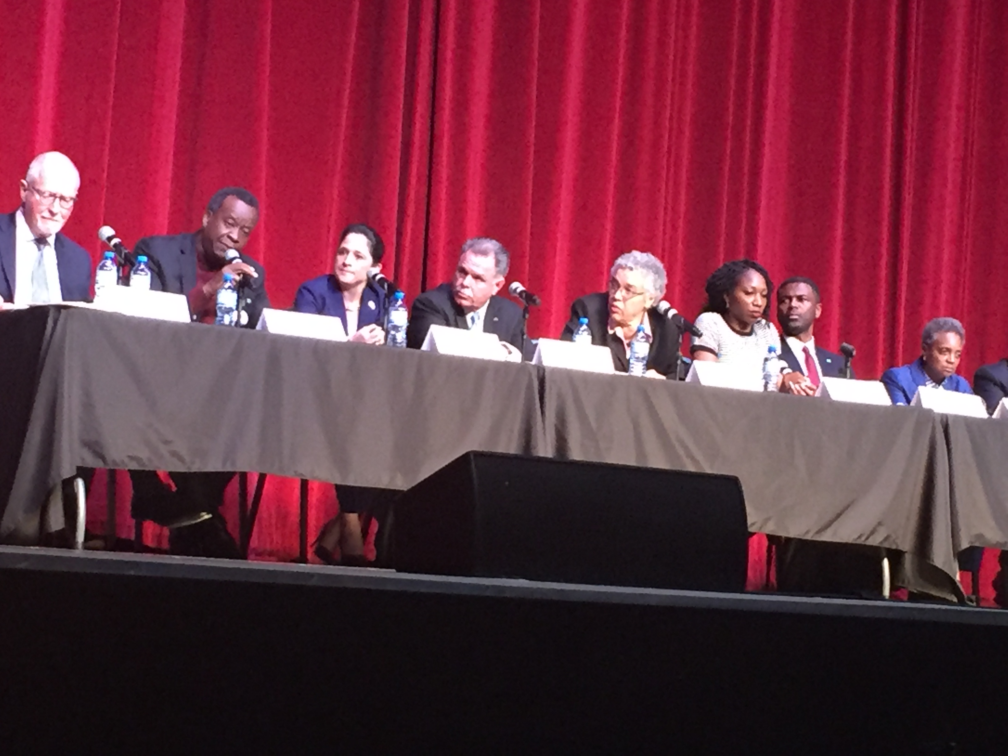 From left to right, Paul Vallas, Willie Wilson, Susana Mendoza, Garry McCarthy, Toni Preckwinkle, Amara Enyia, LaShawn K. Ford and Lori Lightfoot attend a mayoral forum. Not pictured: Gery Chico and Ja'Mal Green